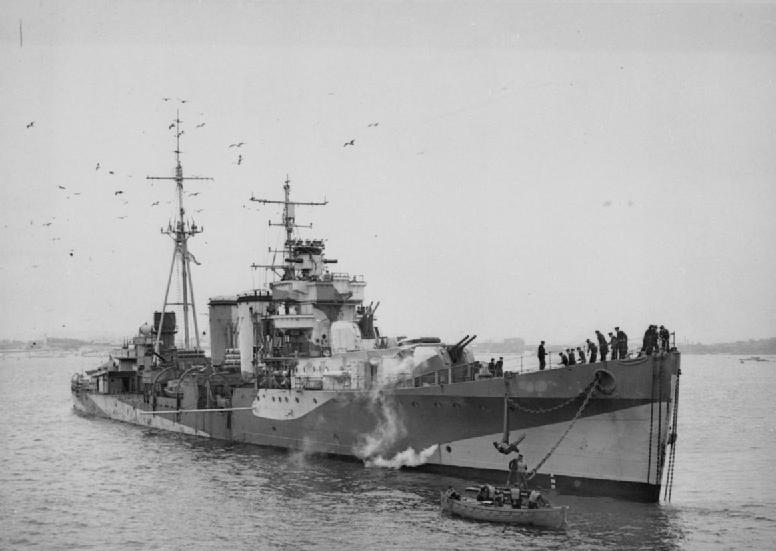 Royal Navy C-class light cruiser HMS Colombo moored to a buoy in Plymouth Sound. Configured as a Anti-Aircraft Ship.